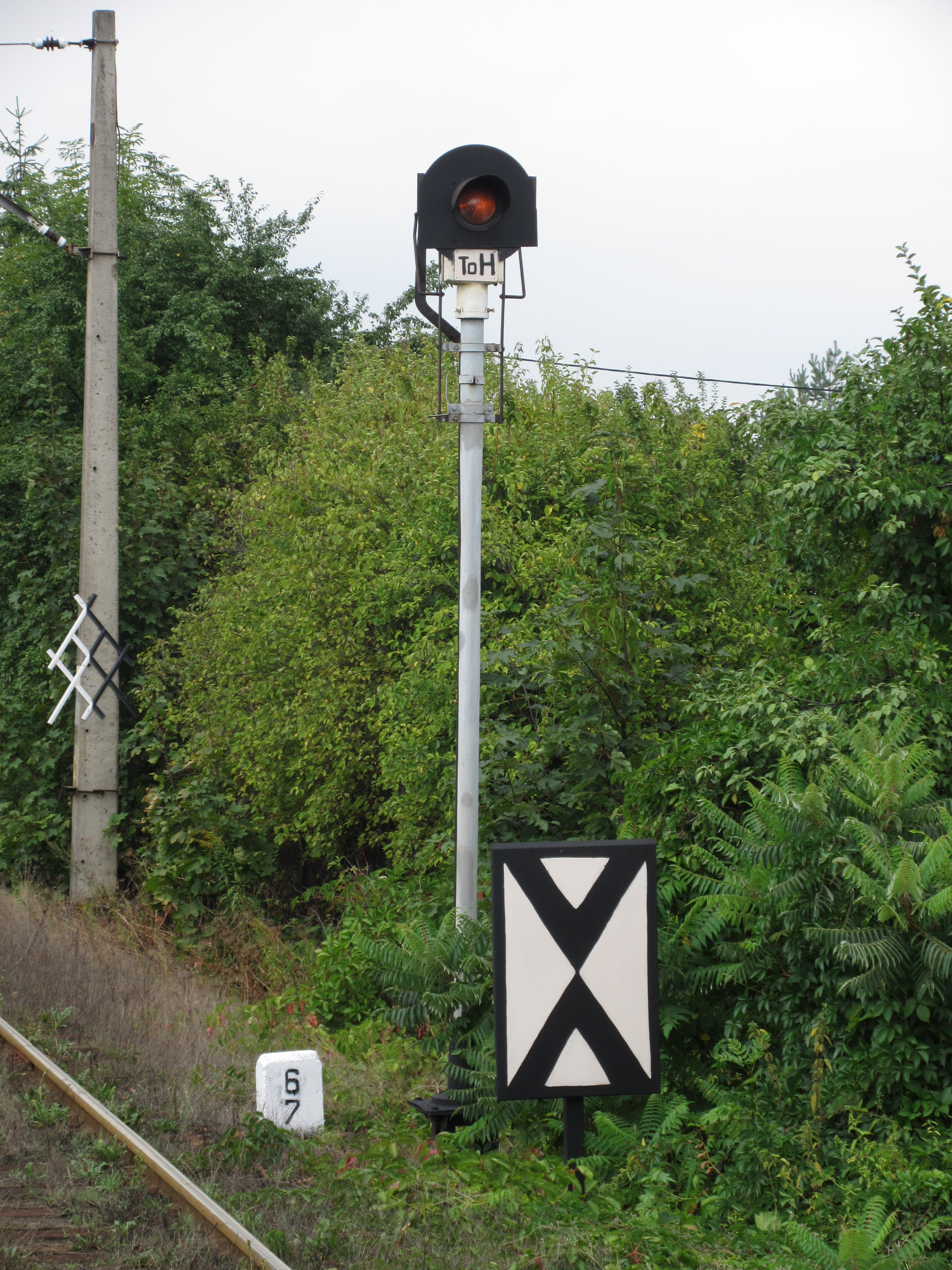 Single chamber approach signal, of Ustroń train station.